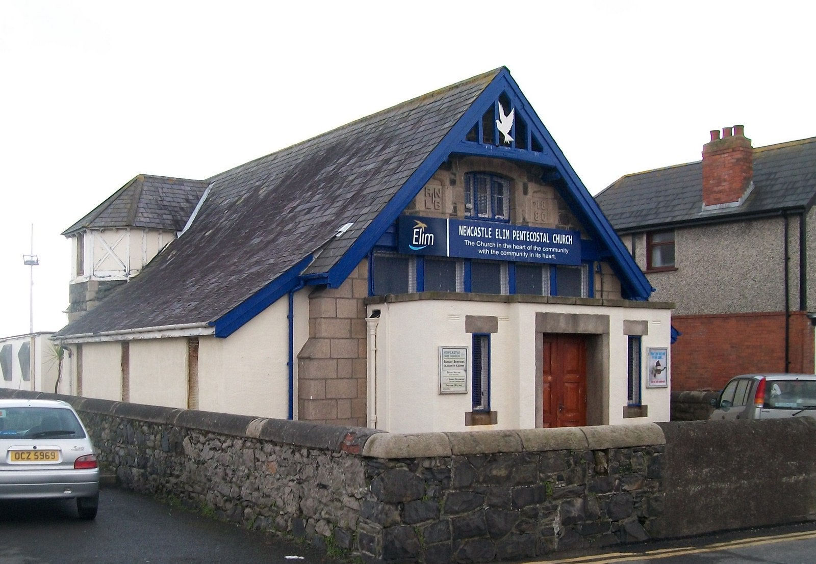 The Newcastle Elim Pentecostal Church Downs Road, Newcastle. The church is housed in the former lifeboat station.